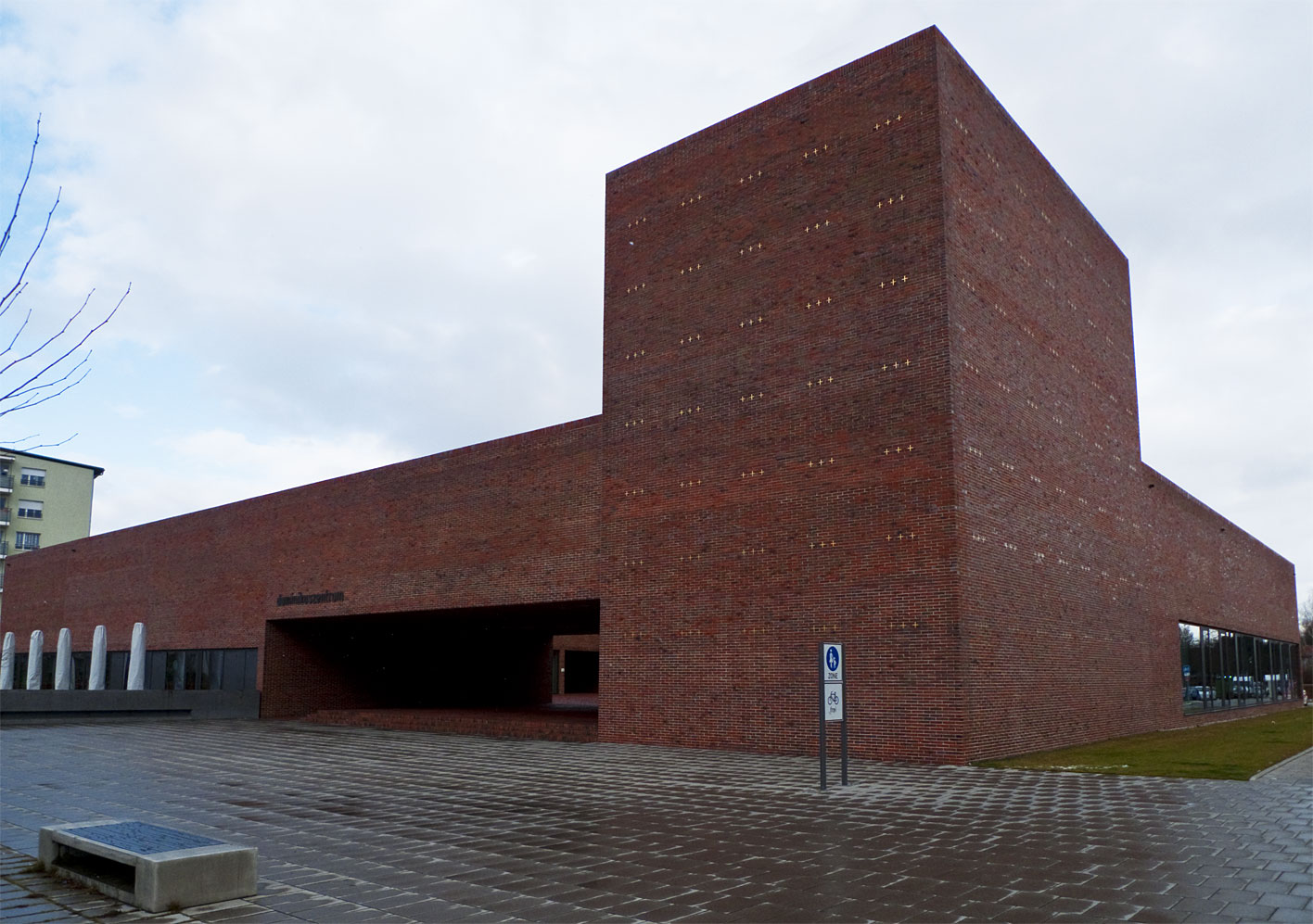 Dominikuszentrum München